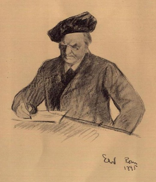 Drawing of Bjørnstjerne Bjørnson by Erik Werenskiold. Rome, 1895.